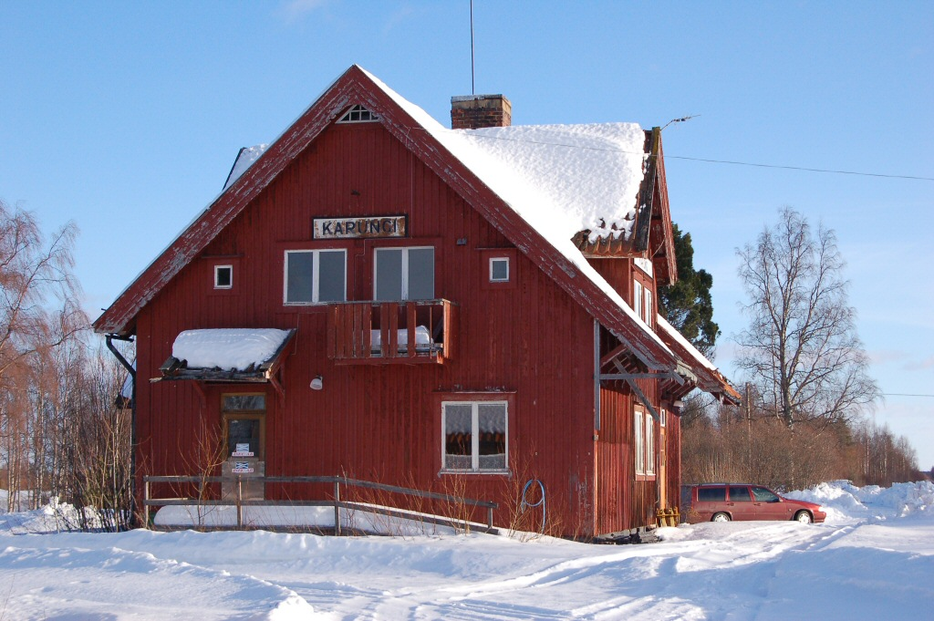 Karungi railway station, Sweden